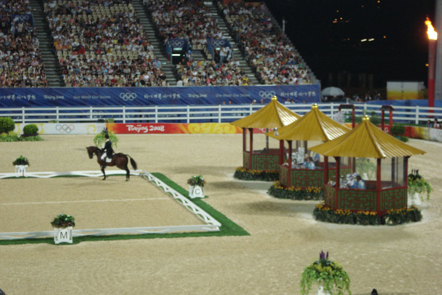 The Hong Kong Olympic Equestrian Venue (Sha Tin)